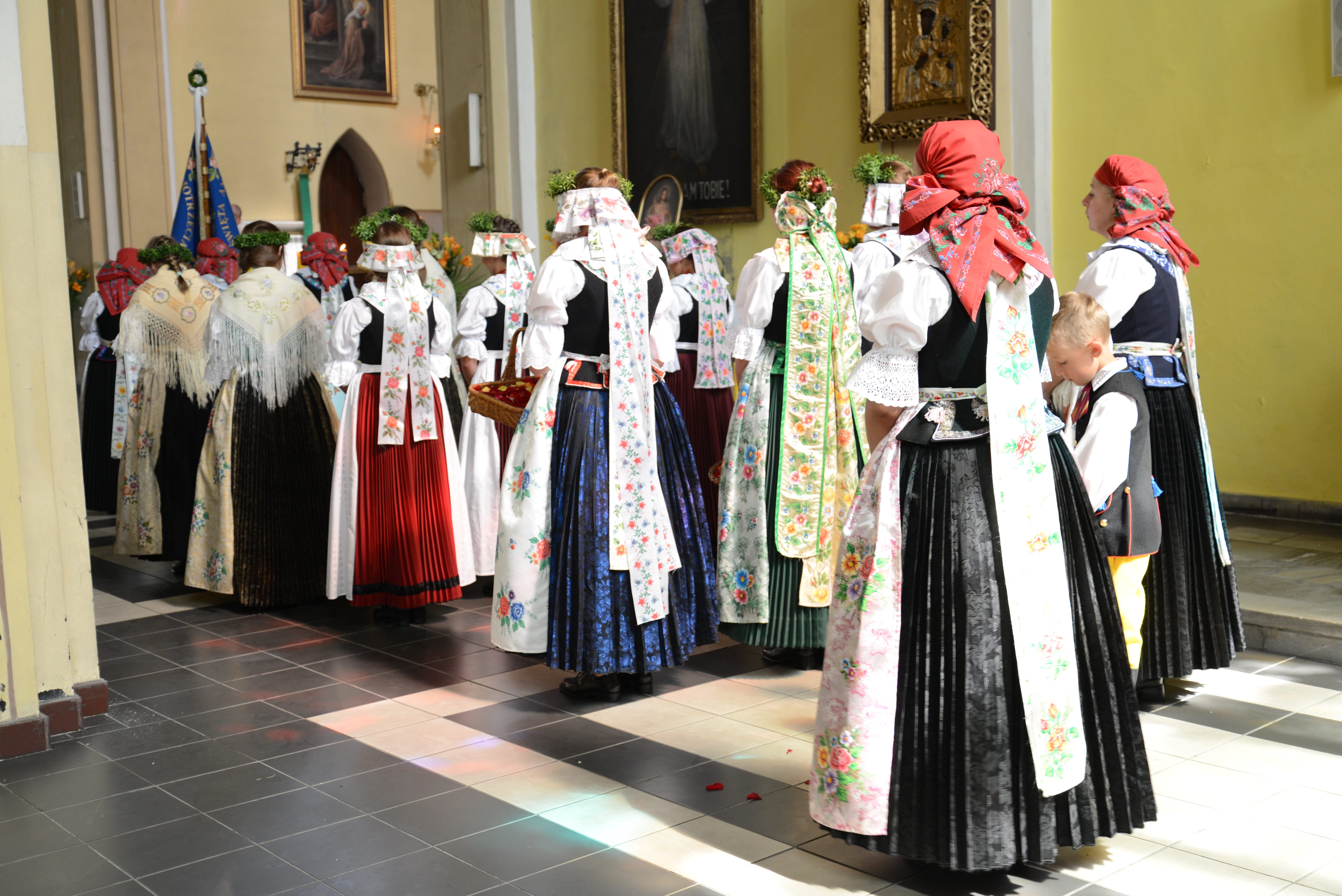 The fair in Świętochłowice-Lipiny - a festiwal in honour of the Church’s patron.